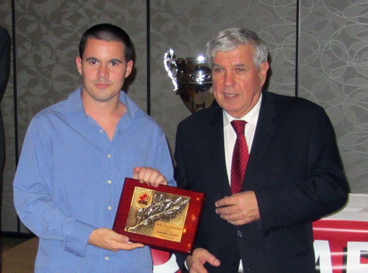 The Fair Play and Respect Award: Niagara United player Derek Paterson (left) accepts award from Pino Jazbec (right).